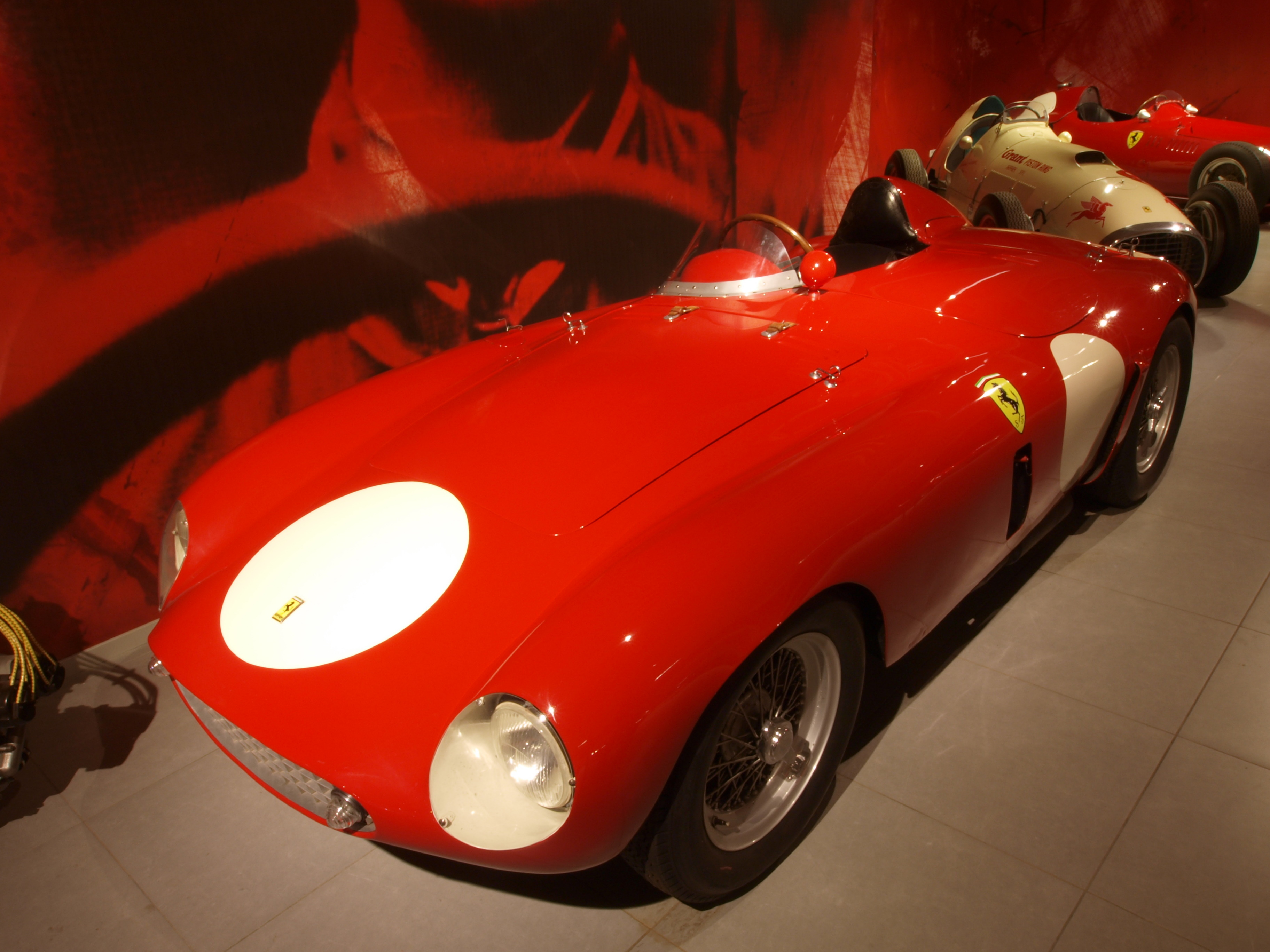 Photographed at the Louwman museum / Louwman Collection, The Netherlands.